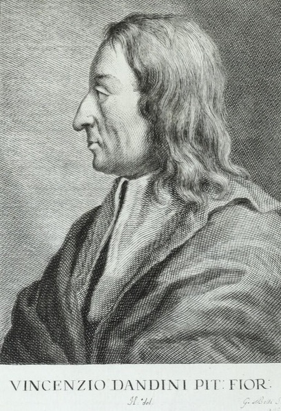 Portrait of the Italian painter Vincenzo Dandini. In "Serie degli uomini i più illustri nella pittura, scultura, e architettura: con i loro elogi, e ritratti incisi in rame cominciando dalla sua prima restaurazione fino ai tempi presenti" (1769)